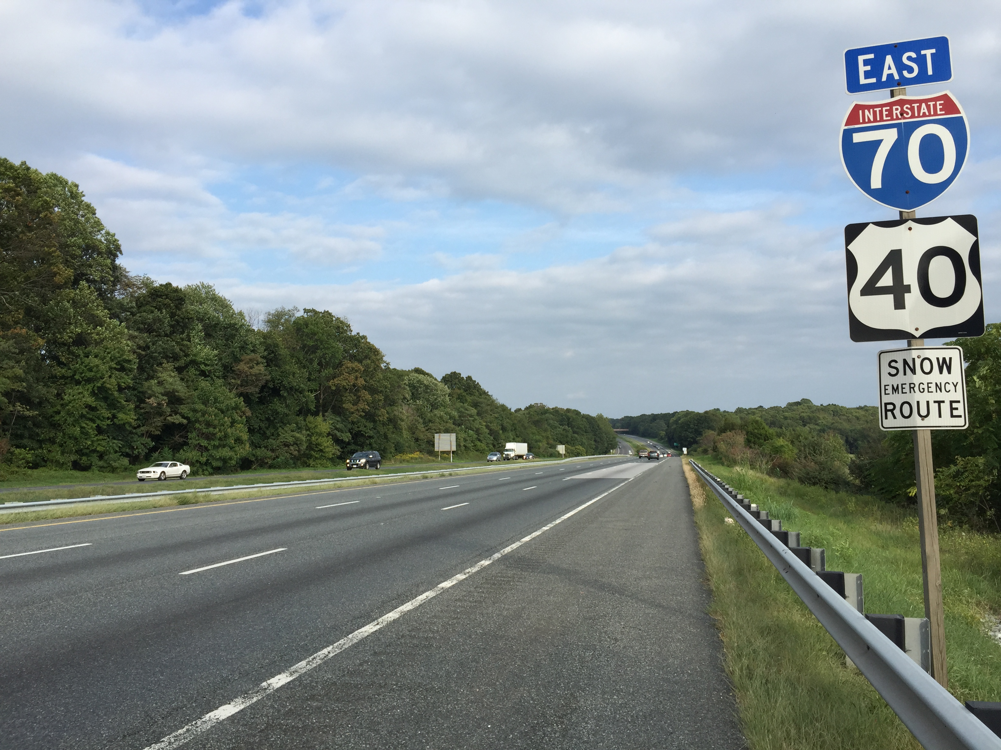 View east along Interstate 70 and U.S. Route 40 (Baltimore National Pike) just east of Exit 73 (Maryland State Route 94, Woodbine, Lisbon) in Lisbon, Howard County, Maryland